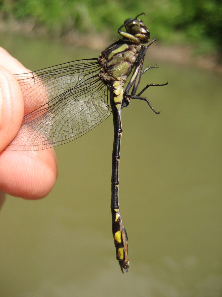 Riverine Clubtail (Stylurus amnicola), Ontario, CA